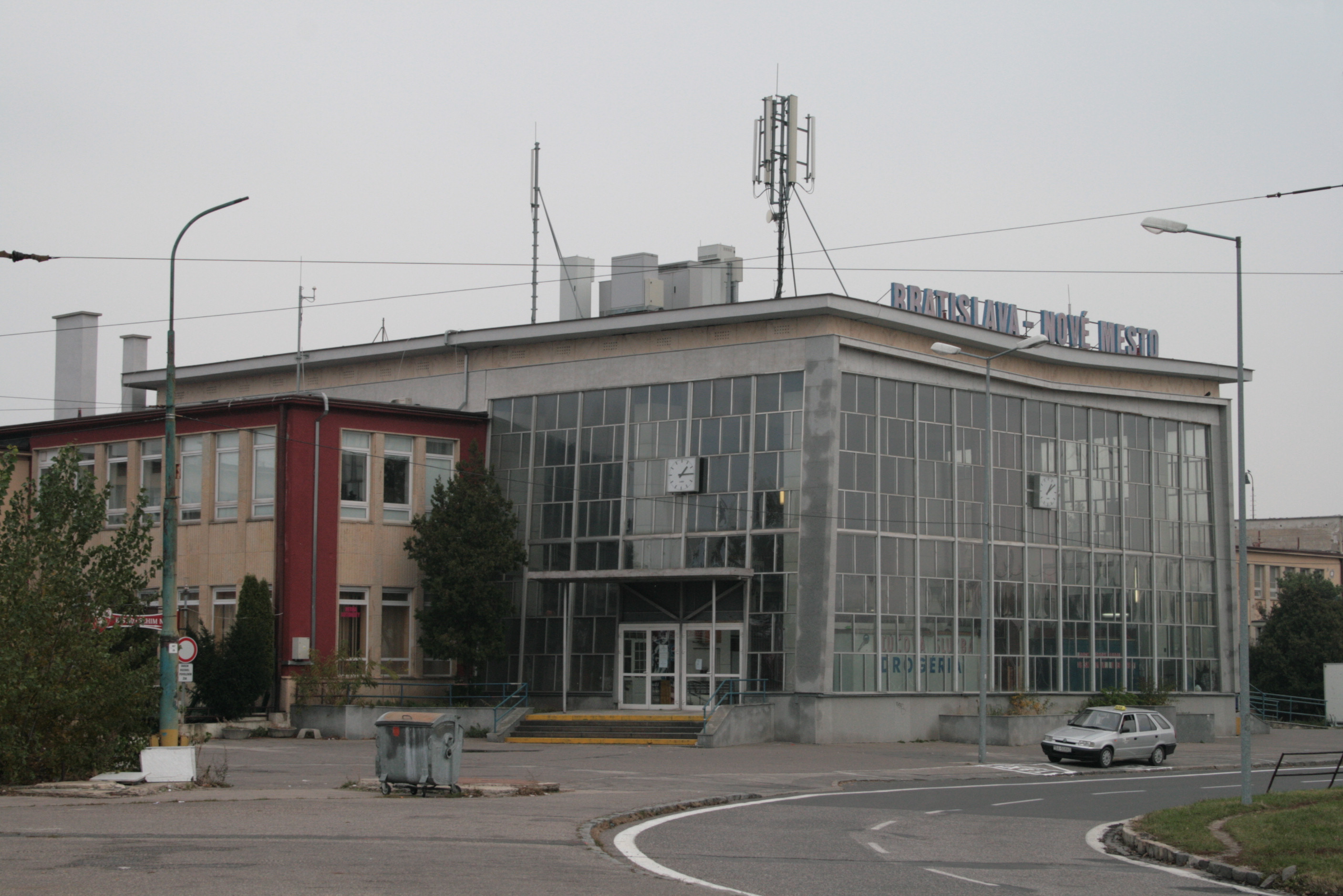 Train station Bratislava - Nové Mesto.